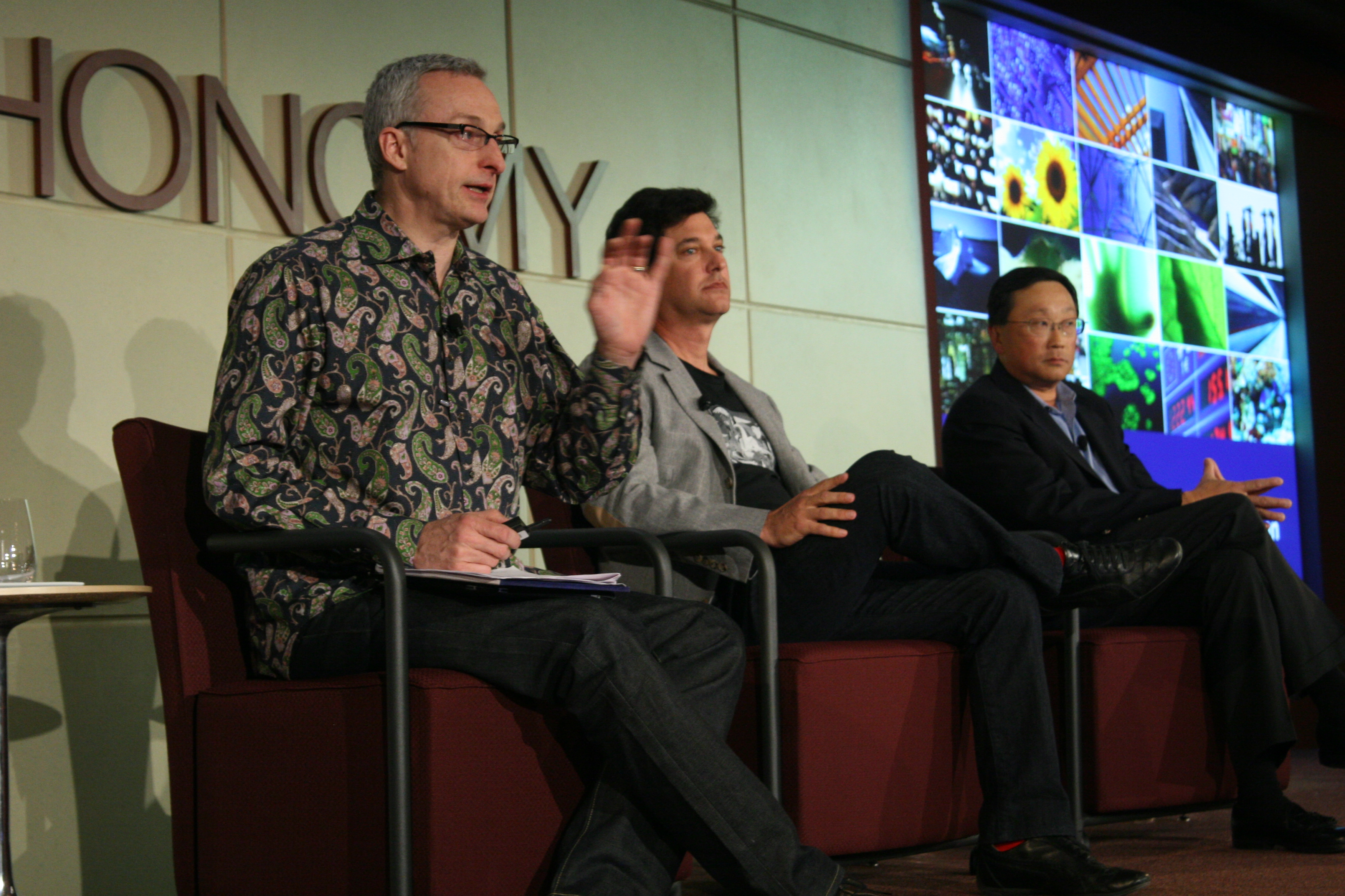 A Global Business Message: Why the US can’t ignore global innovation. Speakers: Jim Breyer, Accel Partners, John Chen, Sybase, Moderator: David Kirkpatrick